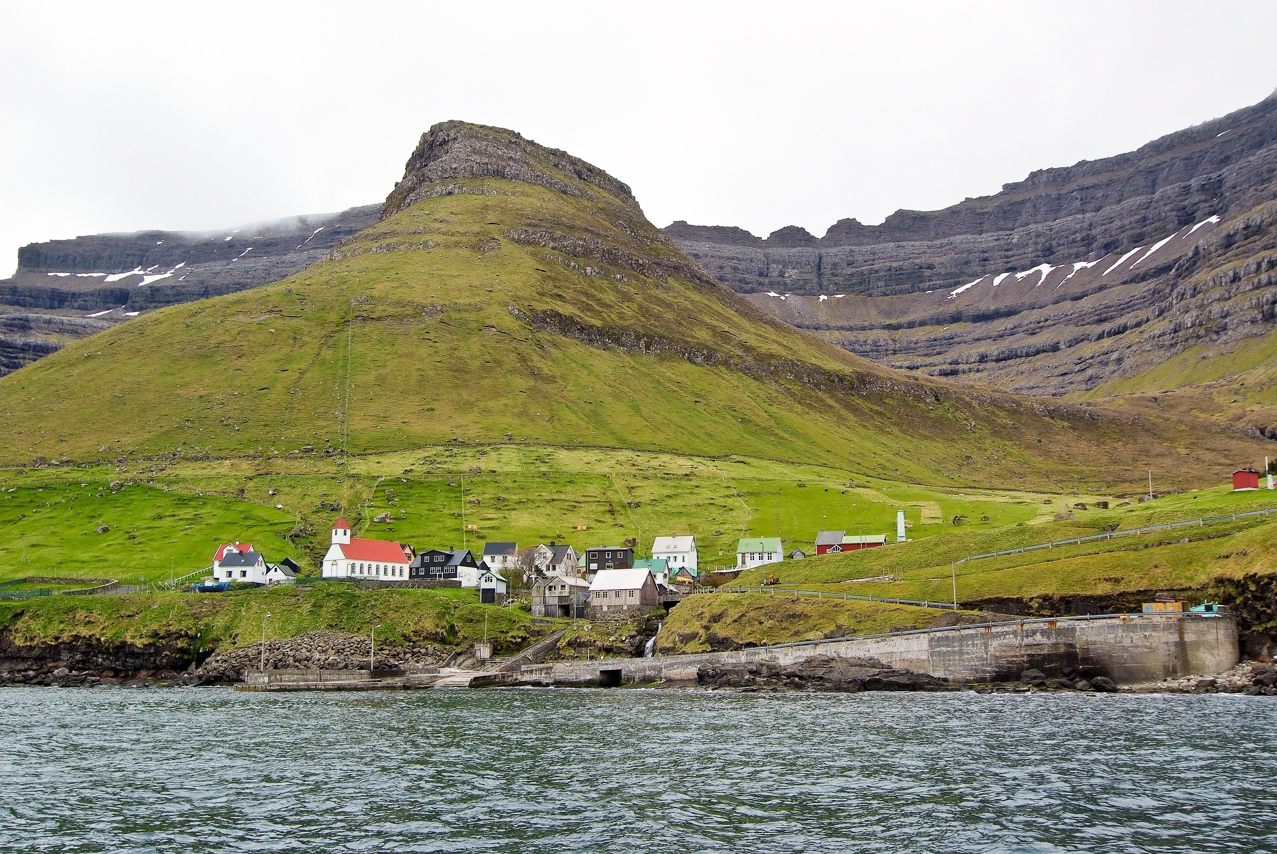 Village of Kunoy in the Faroe Islands